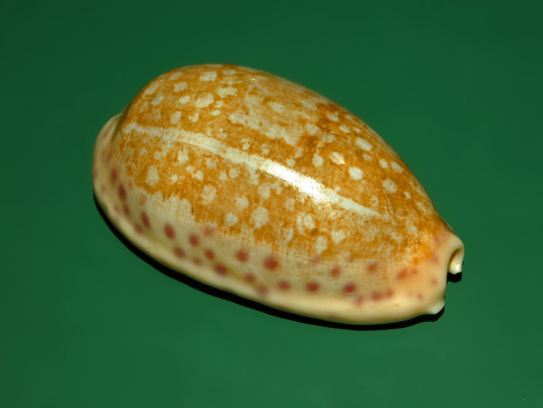 Ovatipsa chinensis variolaria